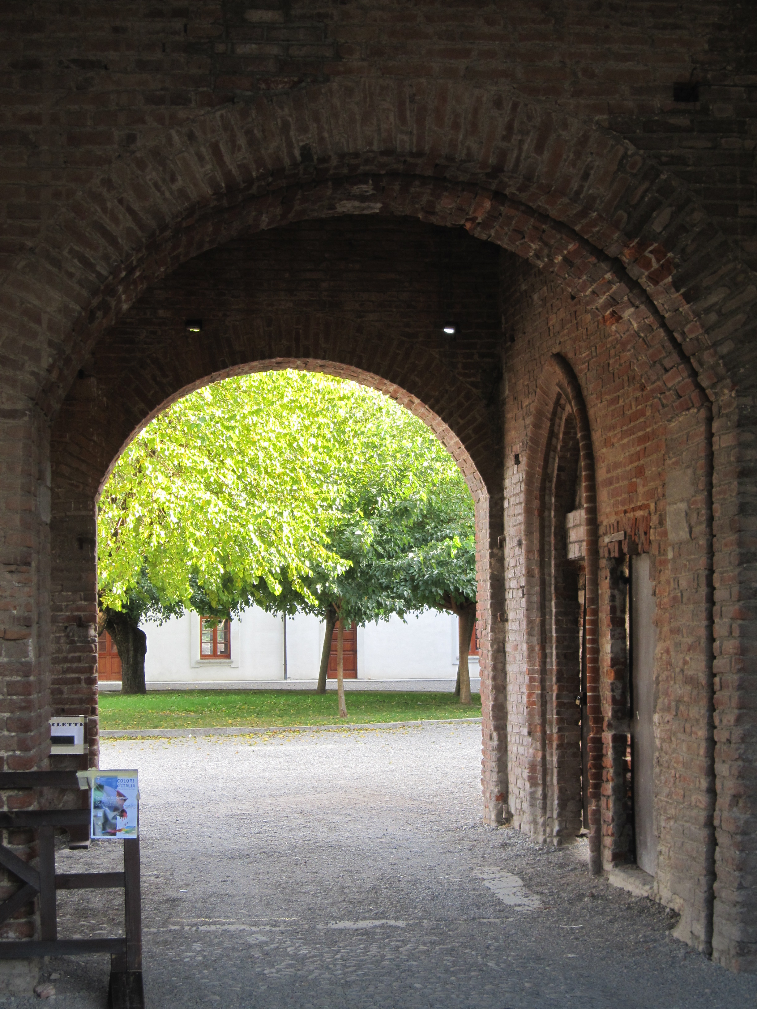 St. George's castle (in Legnano, Italy) - main entrance